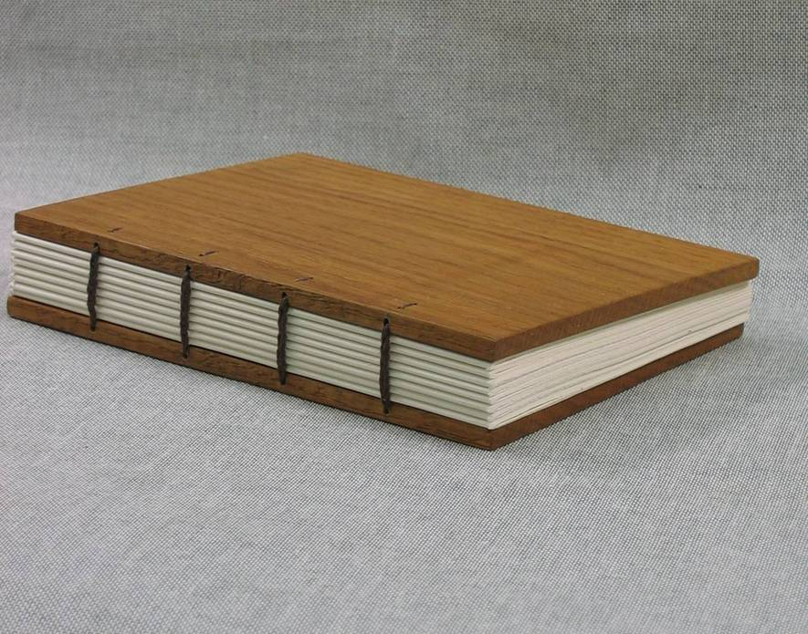 Model Coptic binding created in 2003 by Ratbasket. This is a modern version of a traditional Coptic binding, using wooden boards, Mohawk Superfine paper (as opposed to papyrus or parchment), and 18/3 Irish linen thread. The boards are treated with a commercial wood wax.